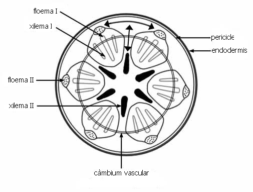 Estructura secundària d'una arrel